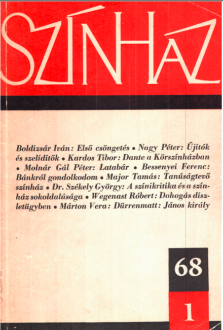 Cover page of the Hungarian theatrical review "Szinhaz", November 1968